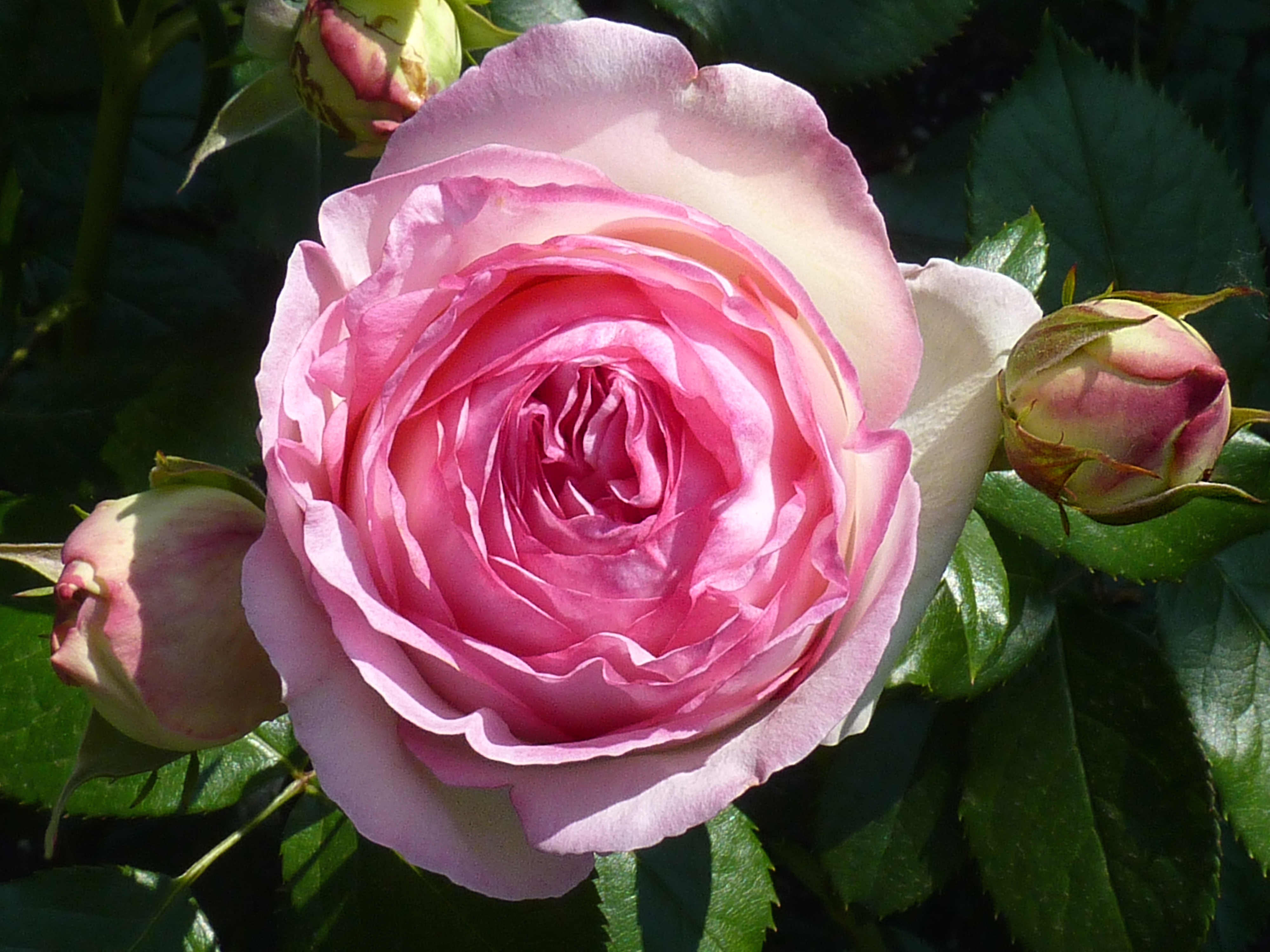 Rosa 'Eden Rose' (Meilland, 1985), syn. Rosa 'Pierre de Ronsard', in the international rose garden of Kortrijk, Belgium.